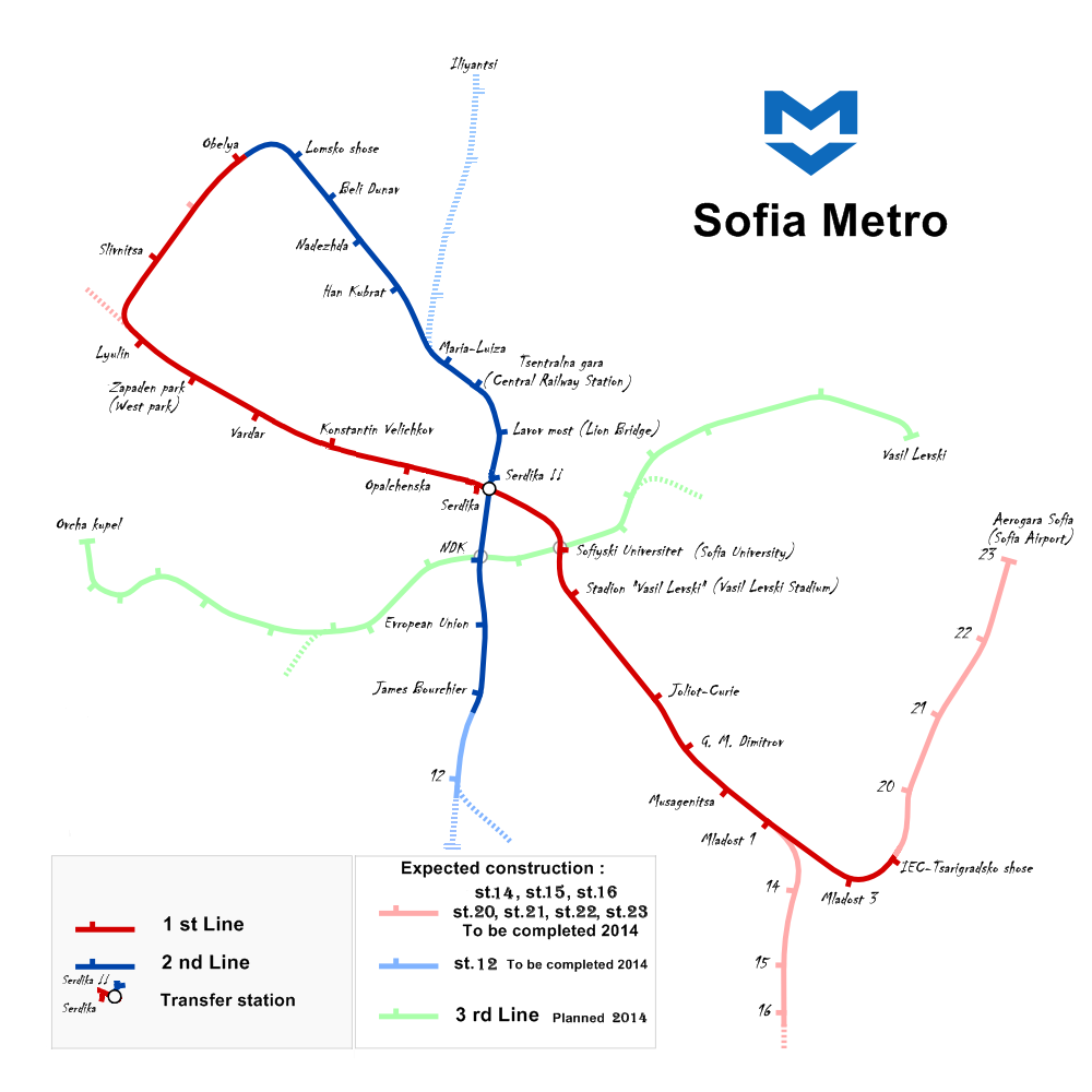 Map of Sofia Metro as of June 2012, with planned lines